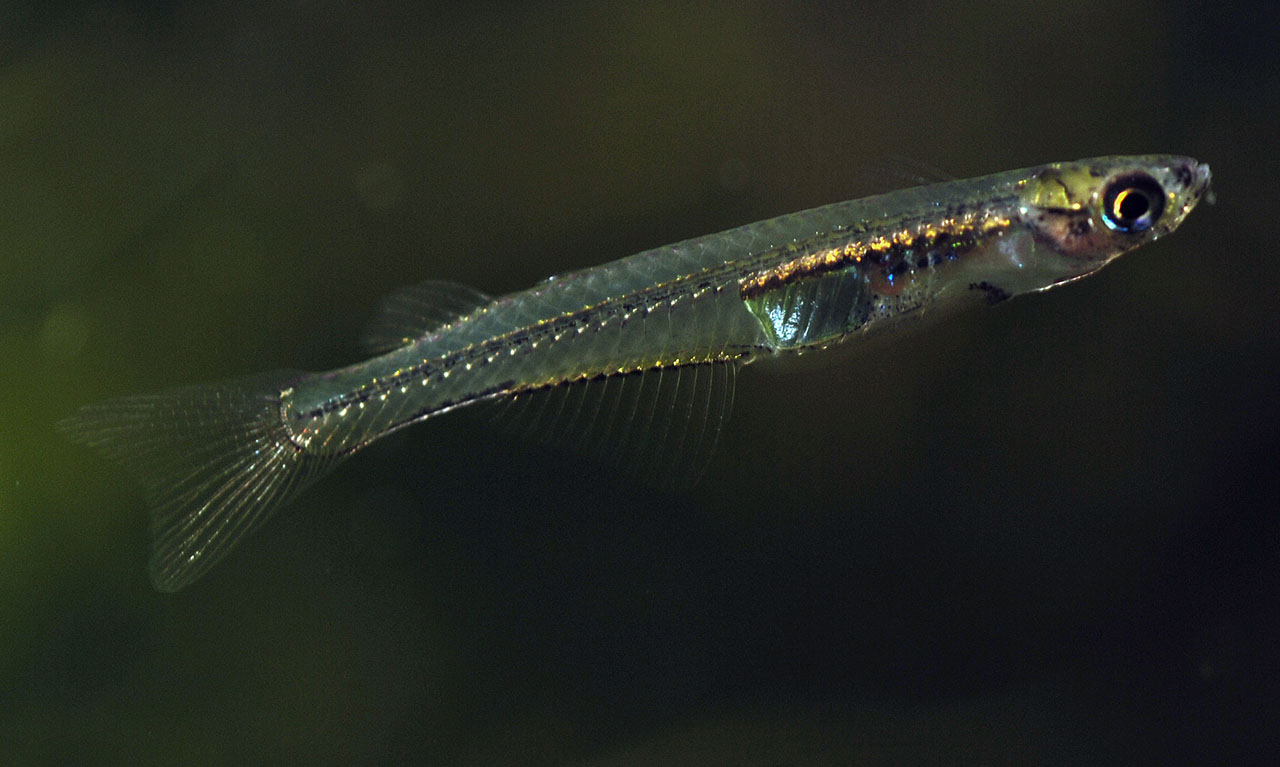 Aquarium photo of adult male _Neostethus lankesteri_ (Atheriniformes: Phallostethidae). Found as contaminant in aquarium trade shipment of _Gobiopterus chuno_.